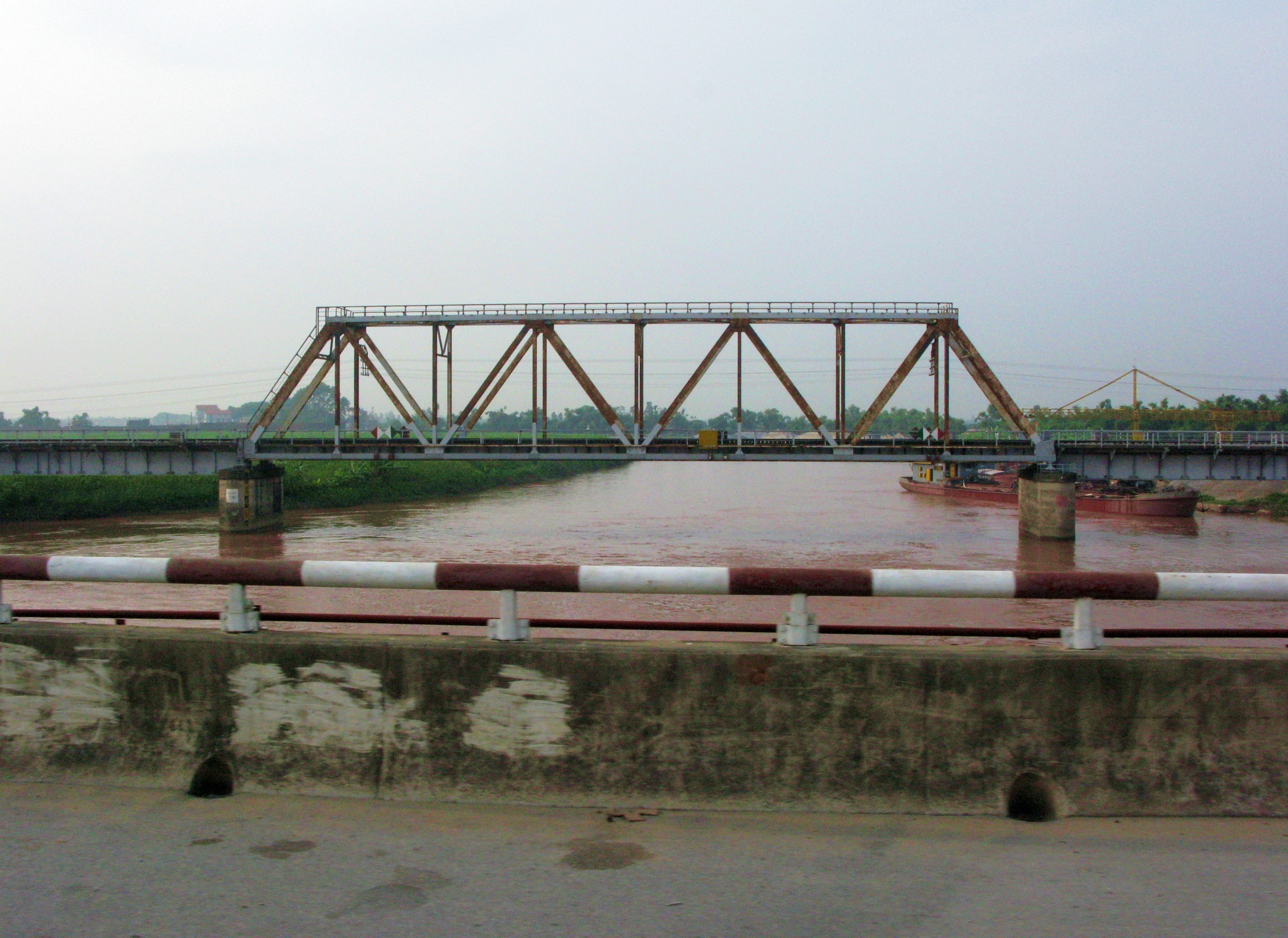 Rạng River viewed from the new Lai Vu Bridge. The bridge shown in this picture is the old Lai Vu Bridge.